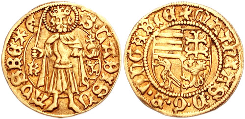 Hungary. Matthias Corvinus. 1458-1490. :::AV Forint or Gold Gulden (3.47 gm, 7h). Kremnica mint. :+mATHIAS•D•G•R•VNGARIE, royal coat of arms,; raven (corvus) in third quarter :•S•LADISL-AVS REX, St. Ladislaus I standing facing, holding raised axe and globus cruciger; K and shield across fields.